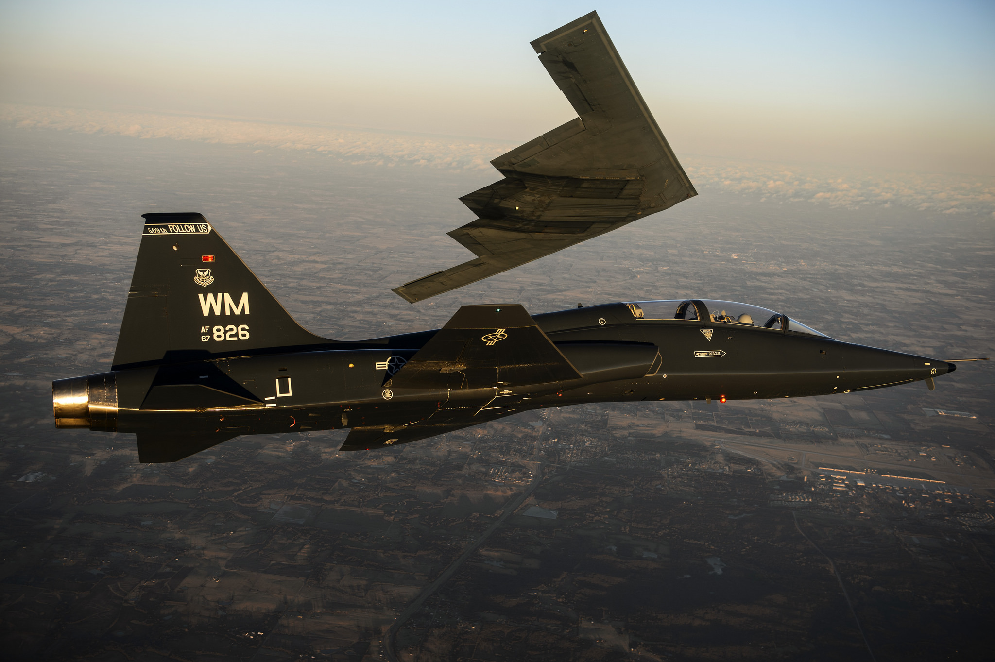 A T-38 Talon flies in formation with the B-2 Spirit of South Carolina during a training mission Feb. 20, 2014, over Whiteman Air Force Base, Mo. The B-2 Spirit is a multirole bomber capable of delivering both conventional and nuclear munitions. (U.S. Air Force photo by Staff Sgt. Jonathan Snyder/Released)